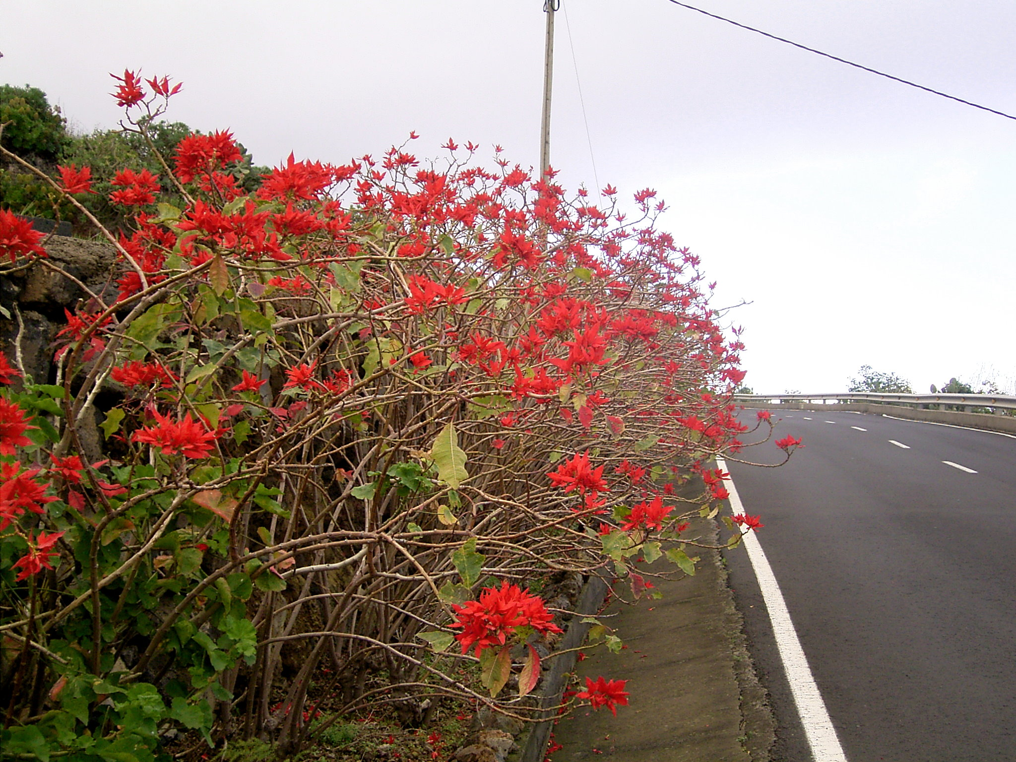 Euphorbia pulcherrima growing in Barlovento, La Palma, Canary Islands